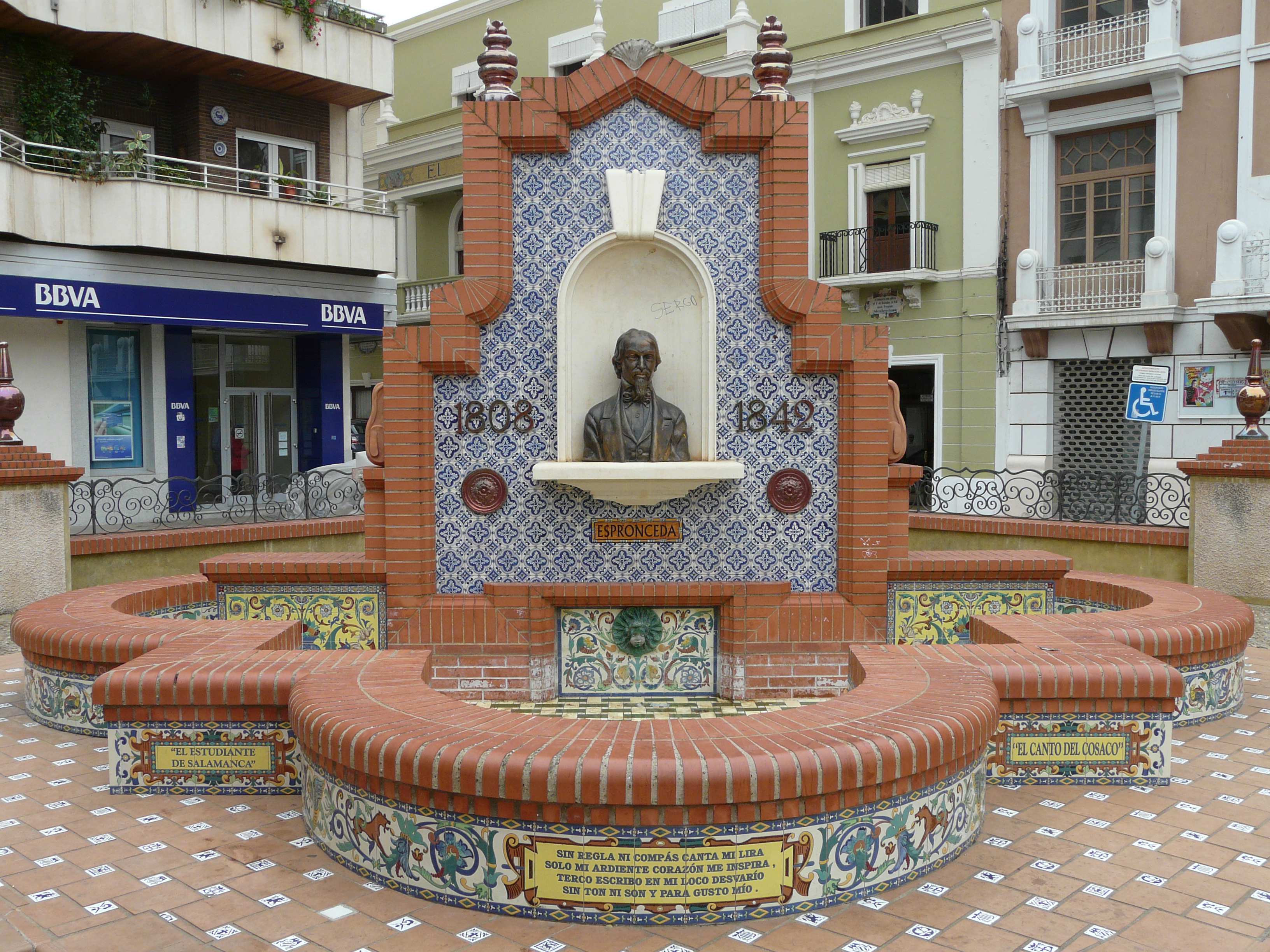 Monument to José de Espronceda in his native town of Almendralejo (Badajoz, Spain)